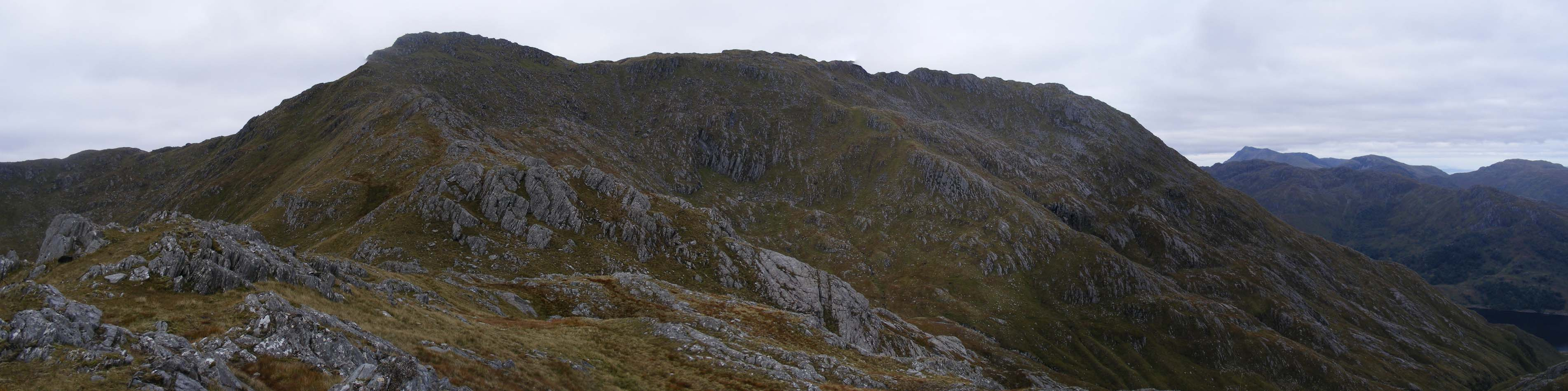 Sgurr nan Eugallt from the north east